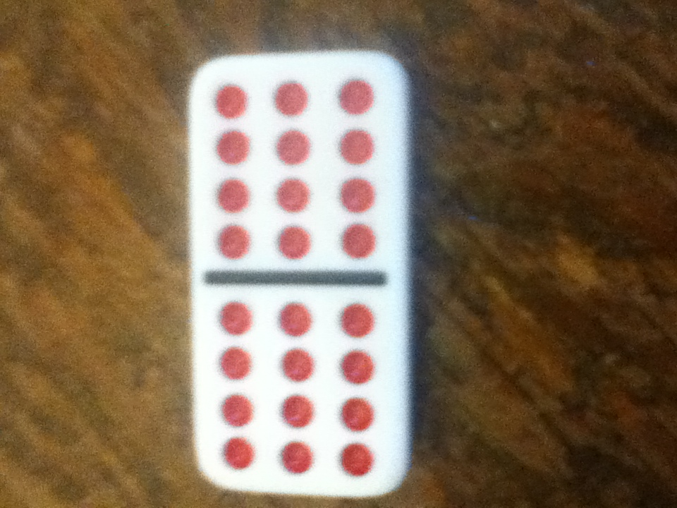 Domino with 12 dots on each side